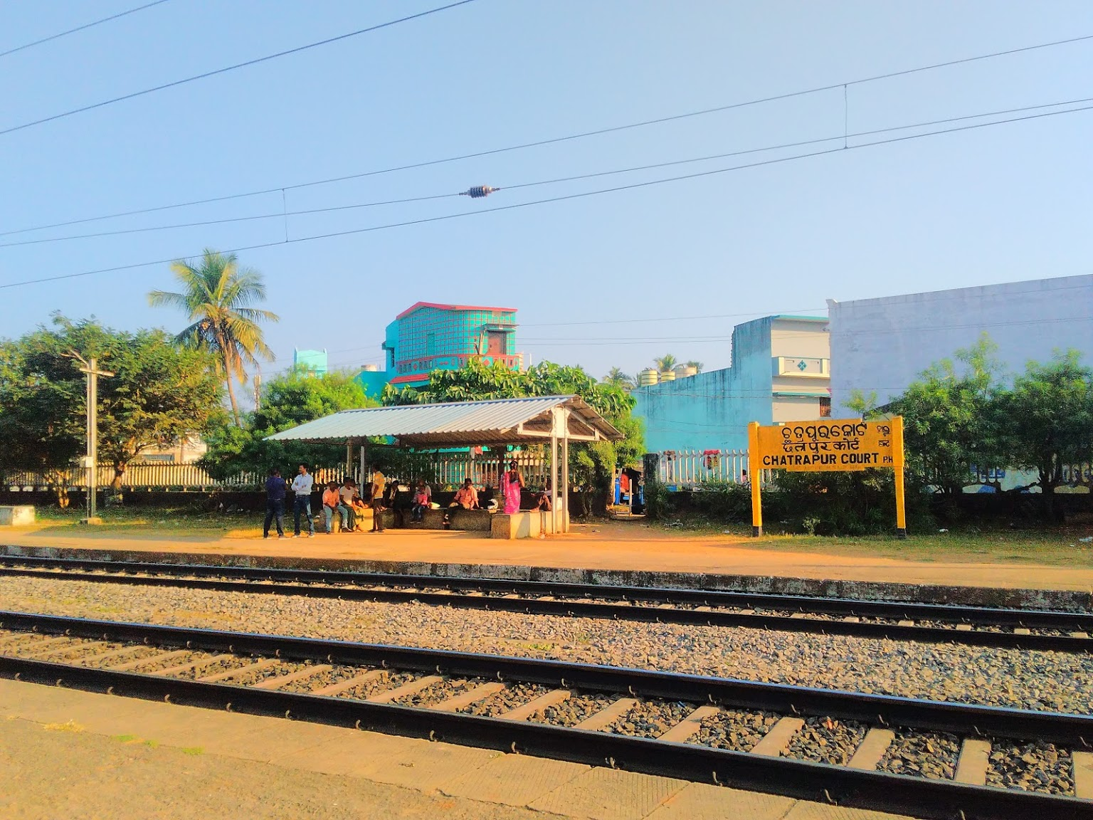 This is the Picture of chhatrapur cort railway station